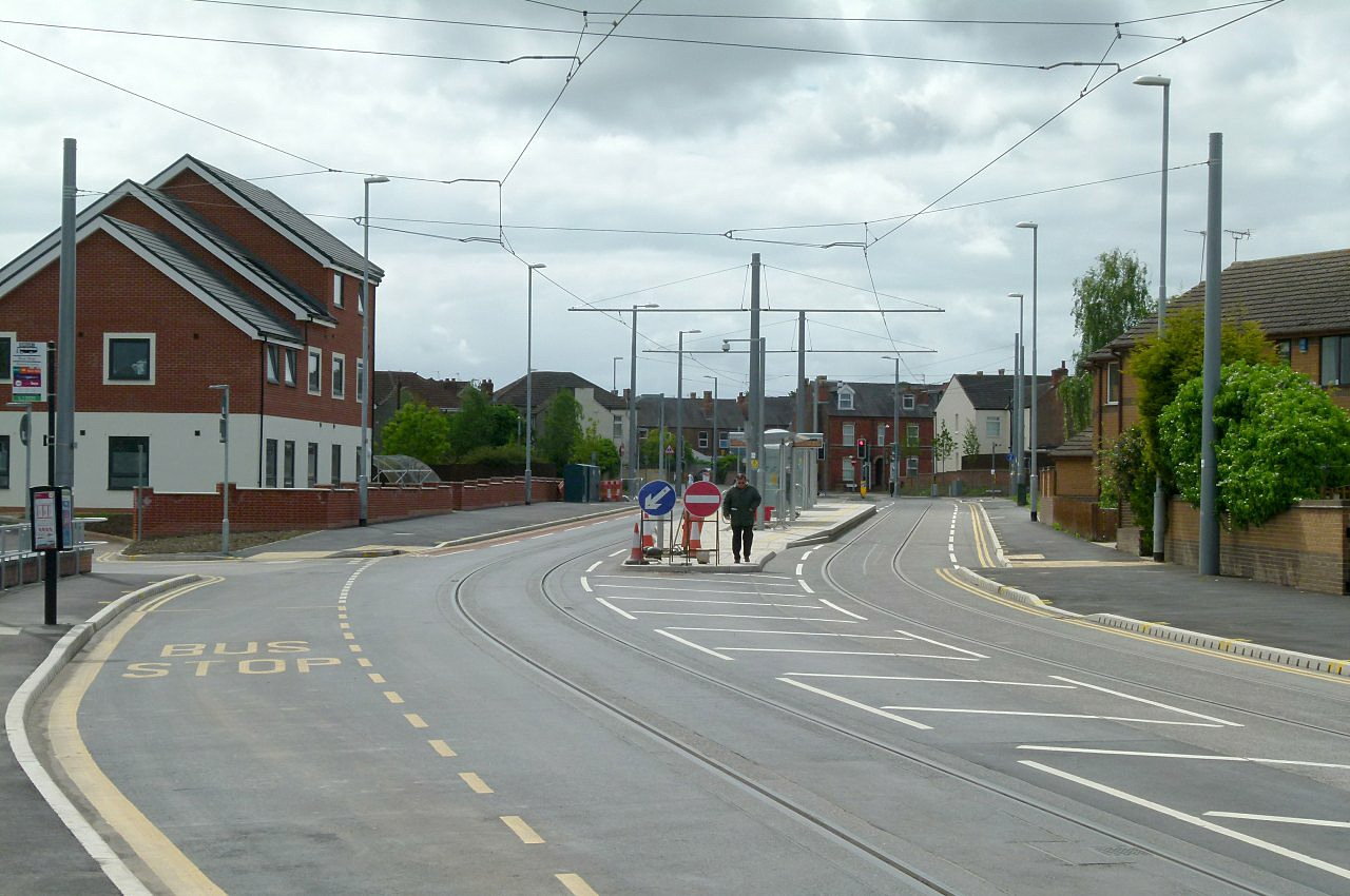 Middle Street tram stop